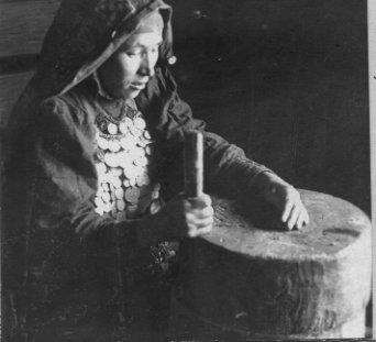 BAshkir